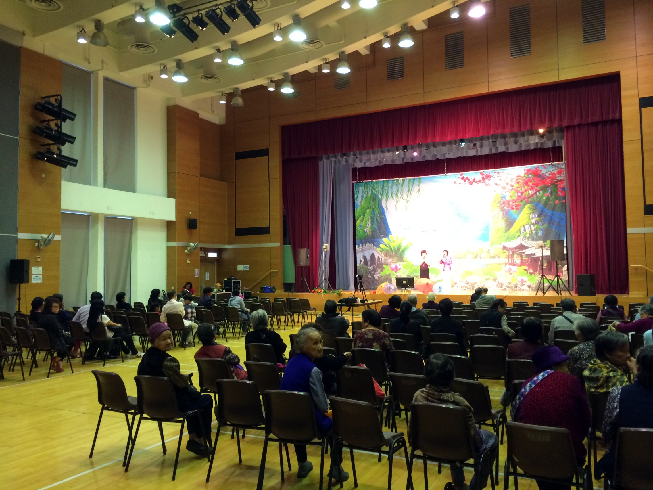 Tin Ching Community Hall interior